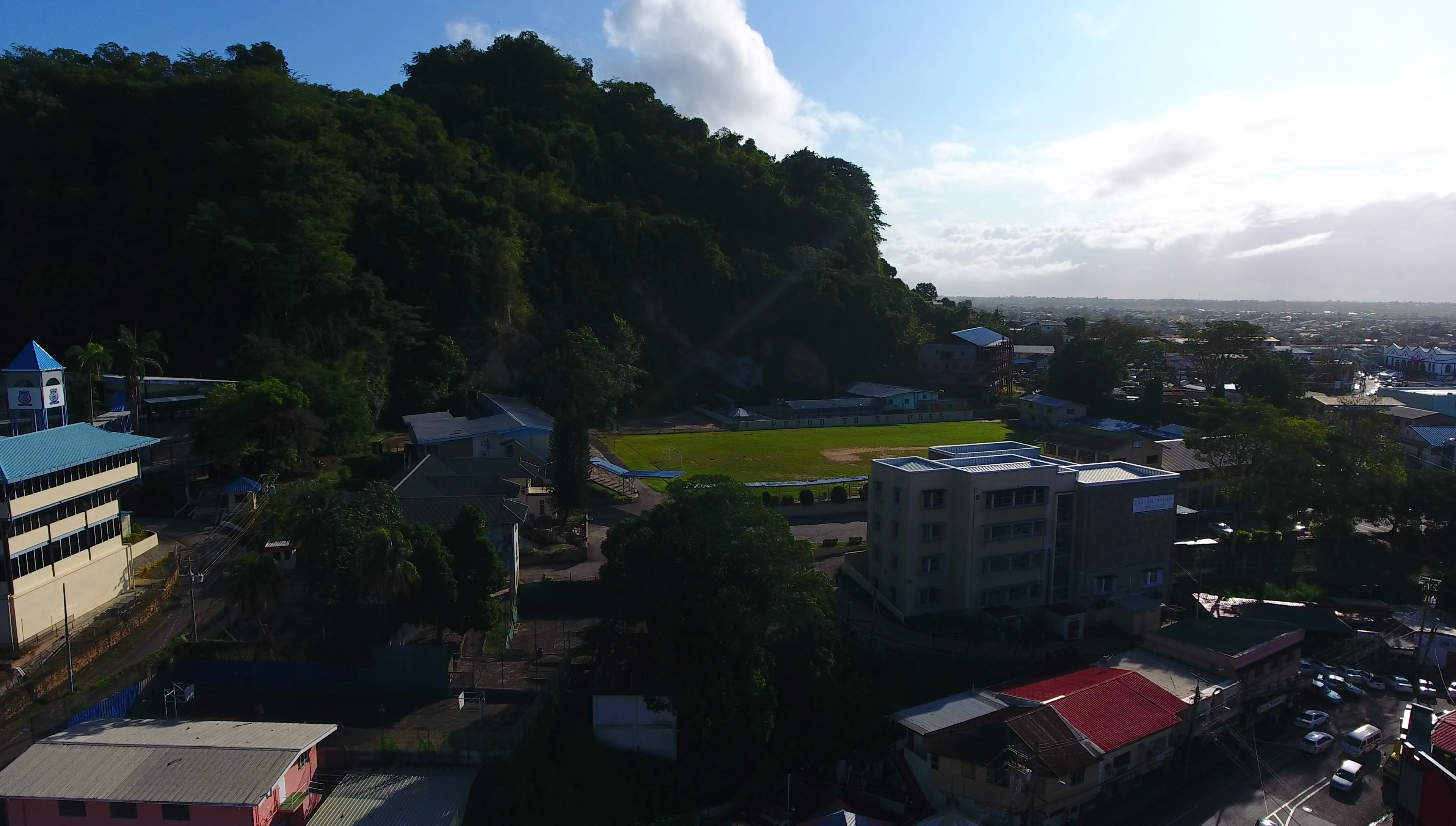 Presentation College, San Fernando, Trinidad and Tobago. To the left: Naparima Girls' High School Photo taken as part of the Southern Trinidad Aerial Photo Project, a small project sponsored by WMDE. Drone used: DJI Phantom 4. Snapshot taken from video footage via VLC.